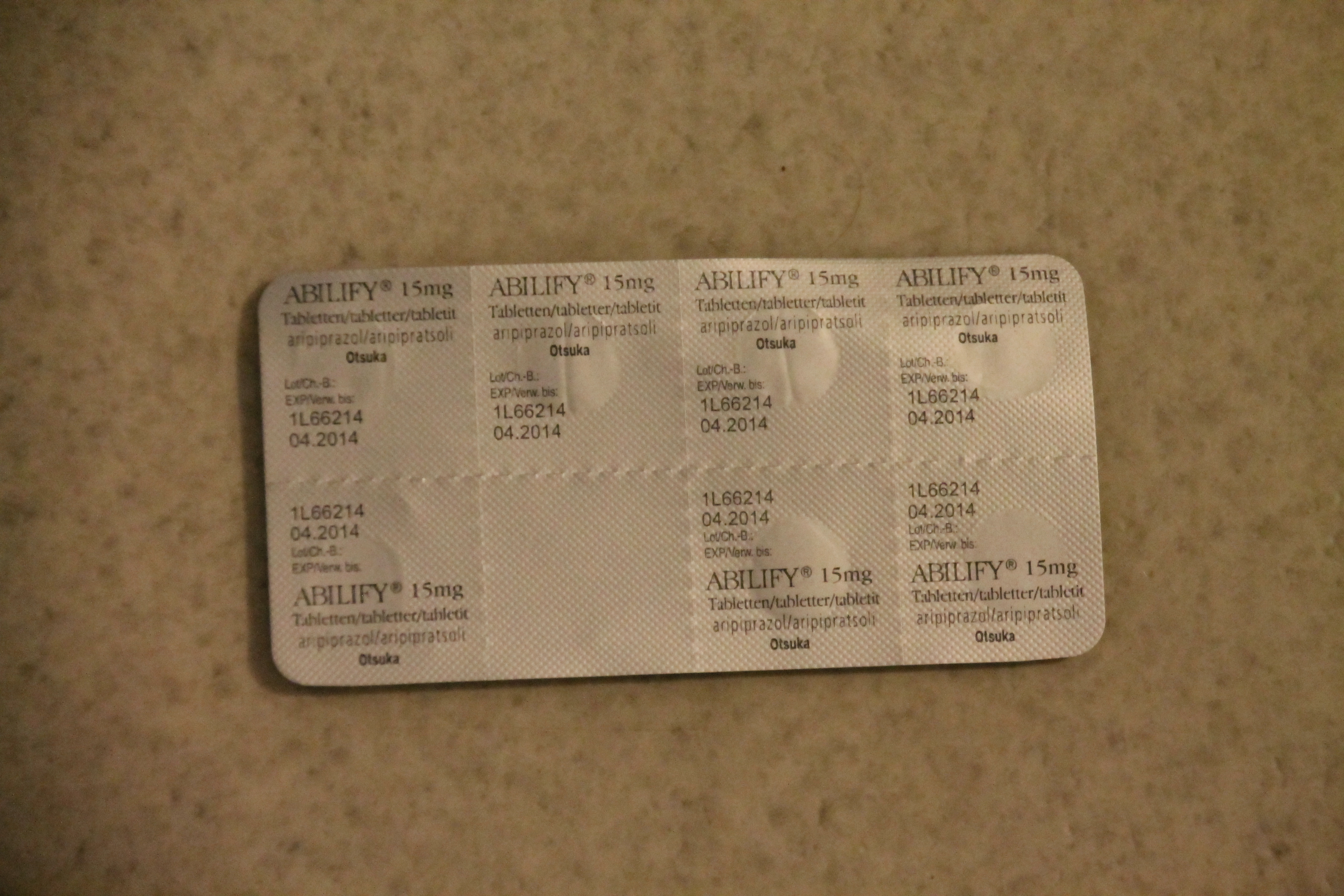 Abilify (aripiprazole) 15mg -tablets.